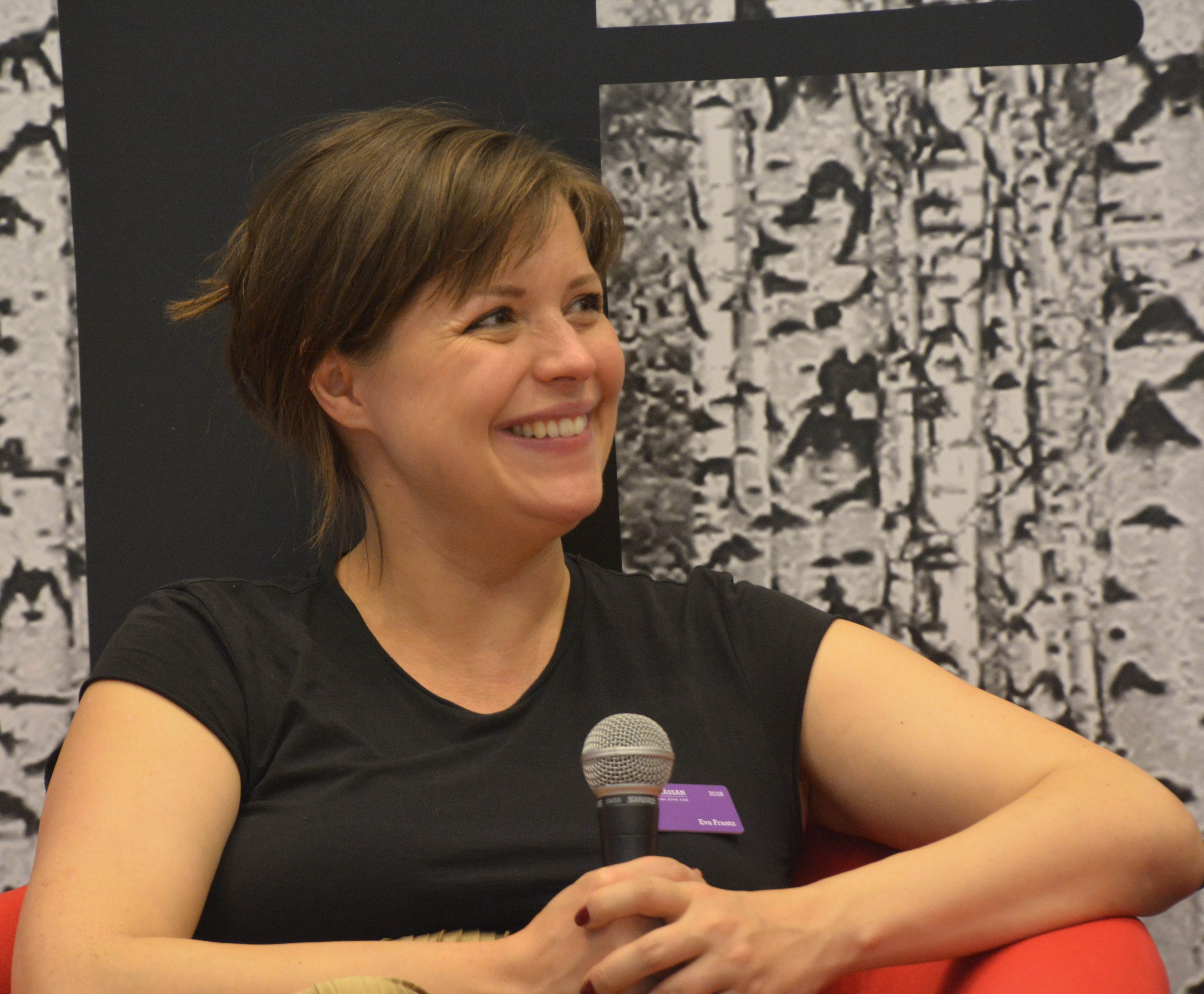 Eva Frantz